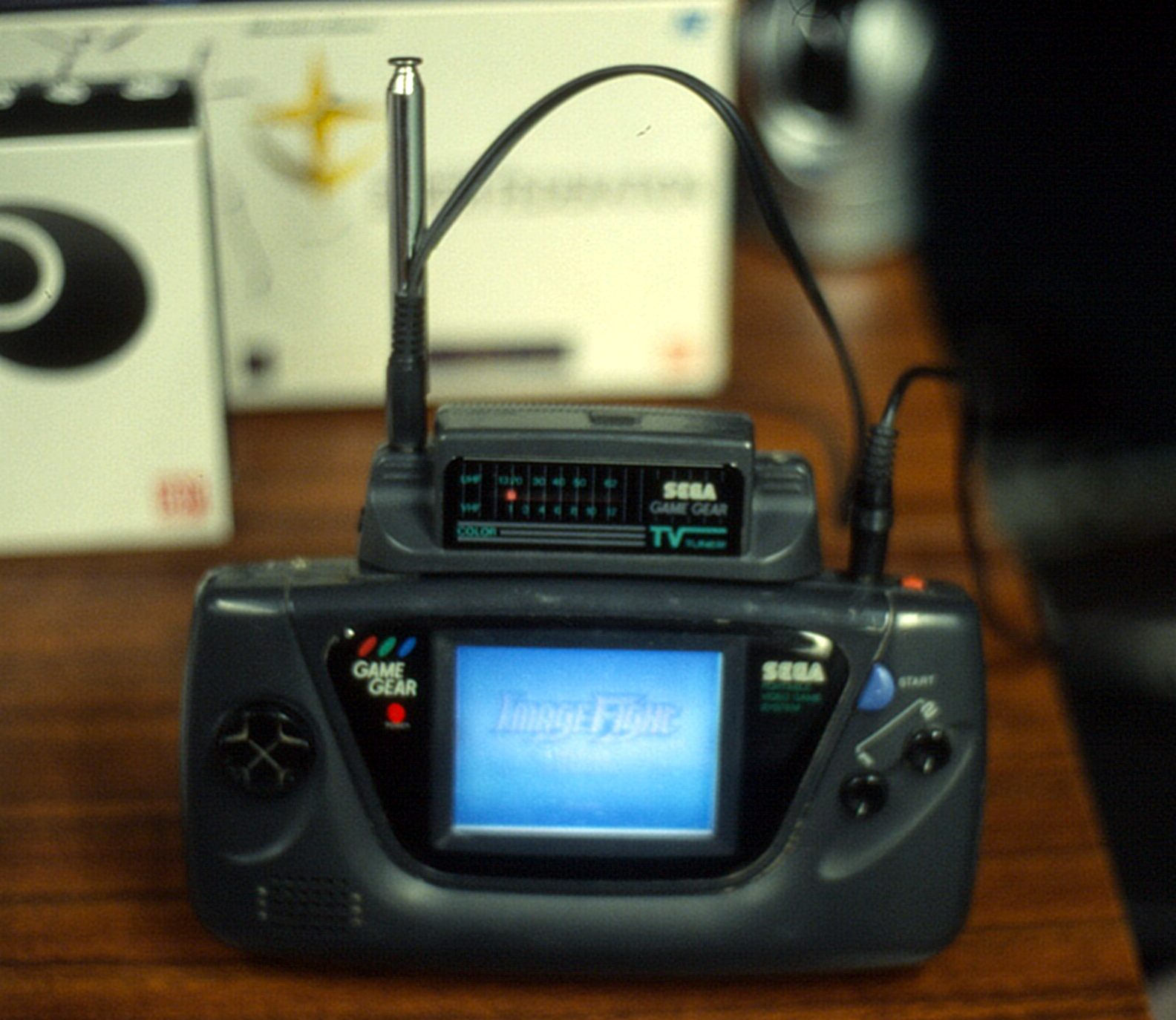 Sega Game Gear with TV Tuner.